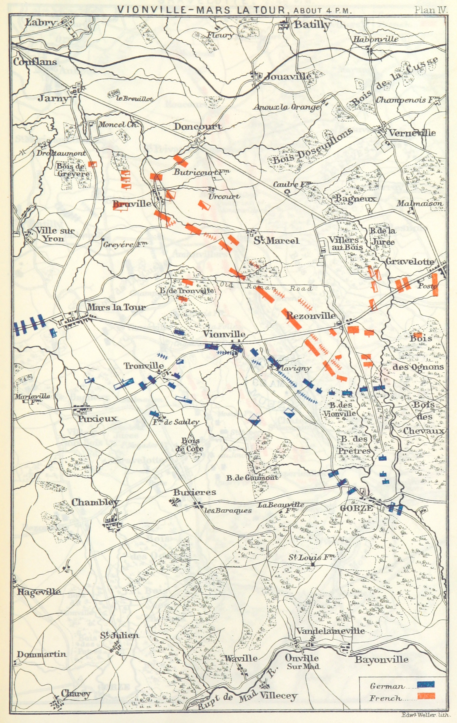 View this map on the BL Georeferencer service. Image taken from: Title: "The Campaign of Sedan: the downfall of the Second Empire. August-September, 1870, etc" Author: HOOPER, George - of Kensington Shelfmark: "British Library HMNTS 9079.g.8." Page: 385 Place of Publishing: London Date of Publishing: 1887 Publisher: G. Bell & Sons Issuance: monographic Identifier: 001728602 Explore: Find this item in the British Library catalogue, 'Explore'. Download the PDF for this book (volume: 0) Image found on book scan 385 (NB not necessarily a page number) Download the OCR-derived text for this volume: (plain text) or (json) Click here to see all the illustrations in this book and click here to browse other illustrations published in books in the same year. Order a higher quality version from here.